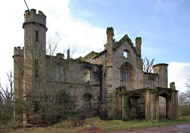 Cambusnethan Priory 1819 - Front View Cambusnethan Priory replaced an earlier 17th century house which burned down in 1810.